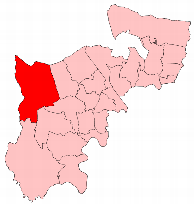 A map of Uxbridge constituency within Middlesex, as it existed from 1945 to 1950.